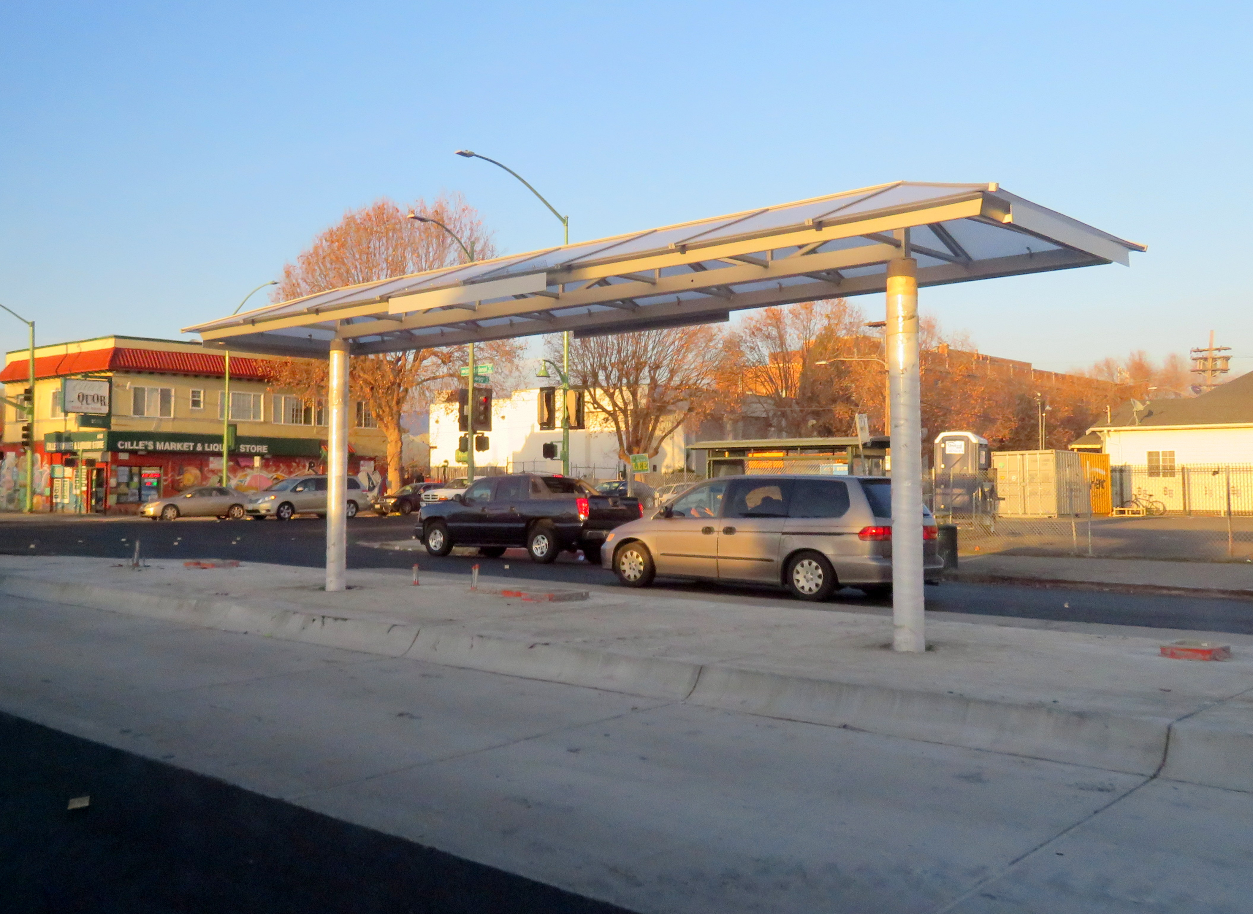 90th Avenue station of East Bay Bus Rapid Transit under construction in December 2018